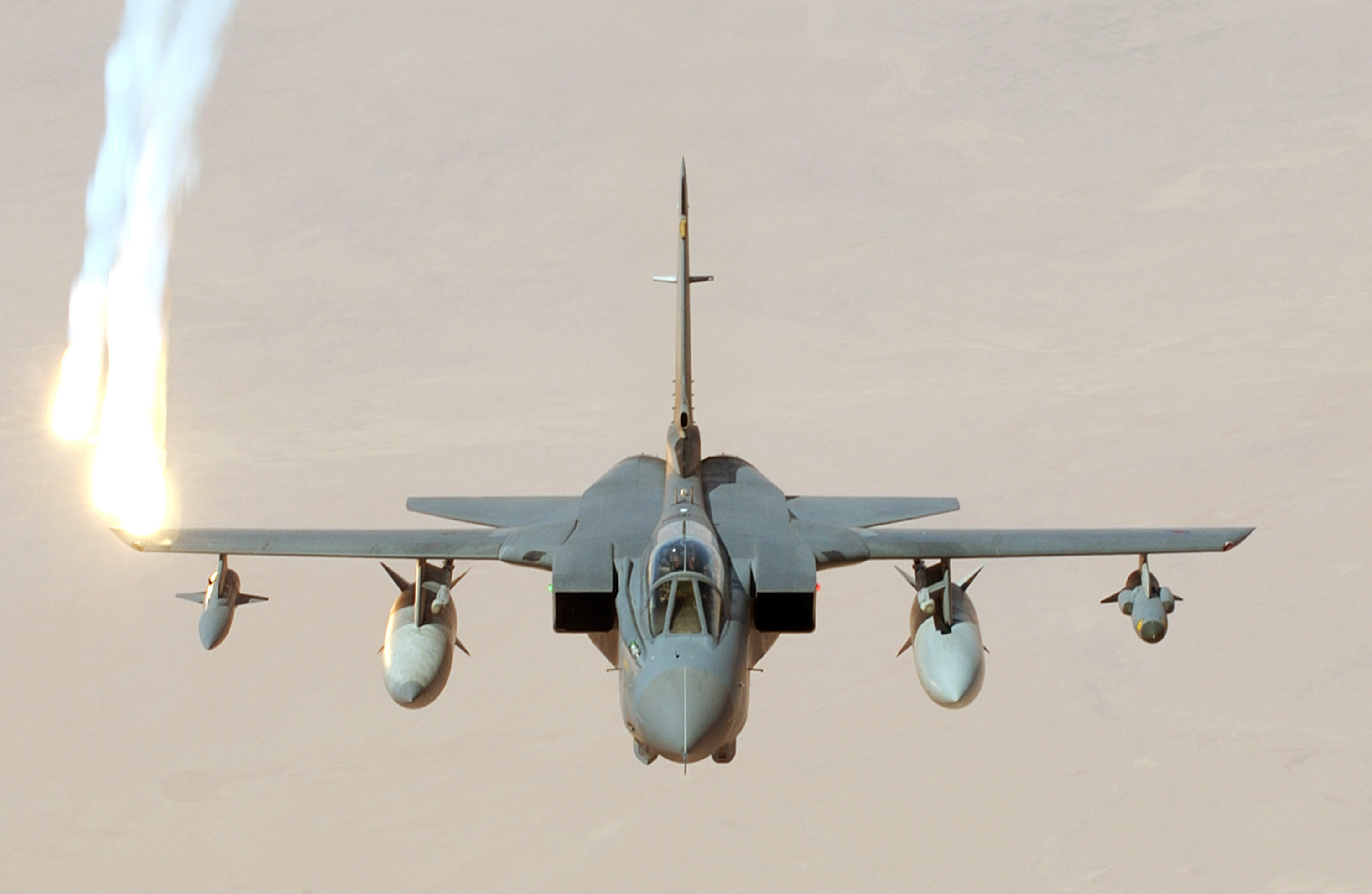 A Royal Air Force (RAF) GR4 Tornado fighter, No. XV (Reserve) Squadron, RAF Lossiemouth, Scotland (SCT), releases flares from the Boz 107 Chaff and Flare Dispenser during a combat mission in support of Operation IRAQI FREEDOM.